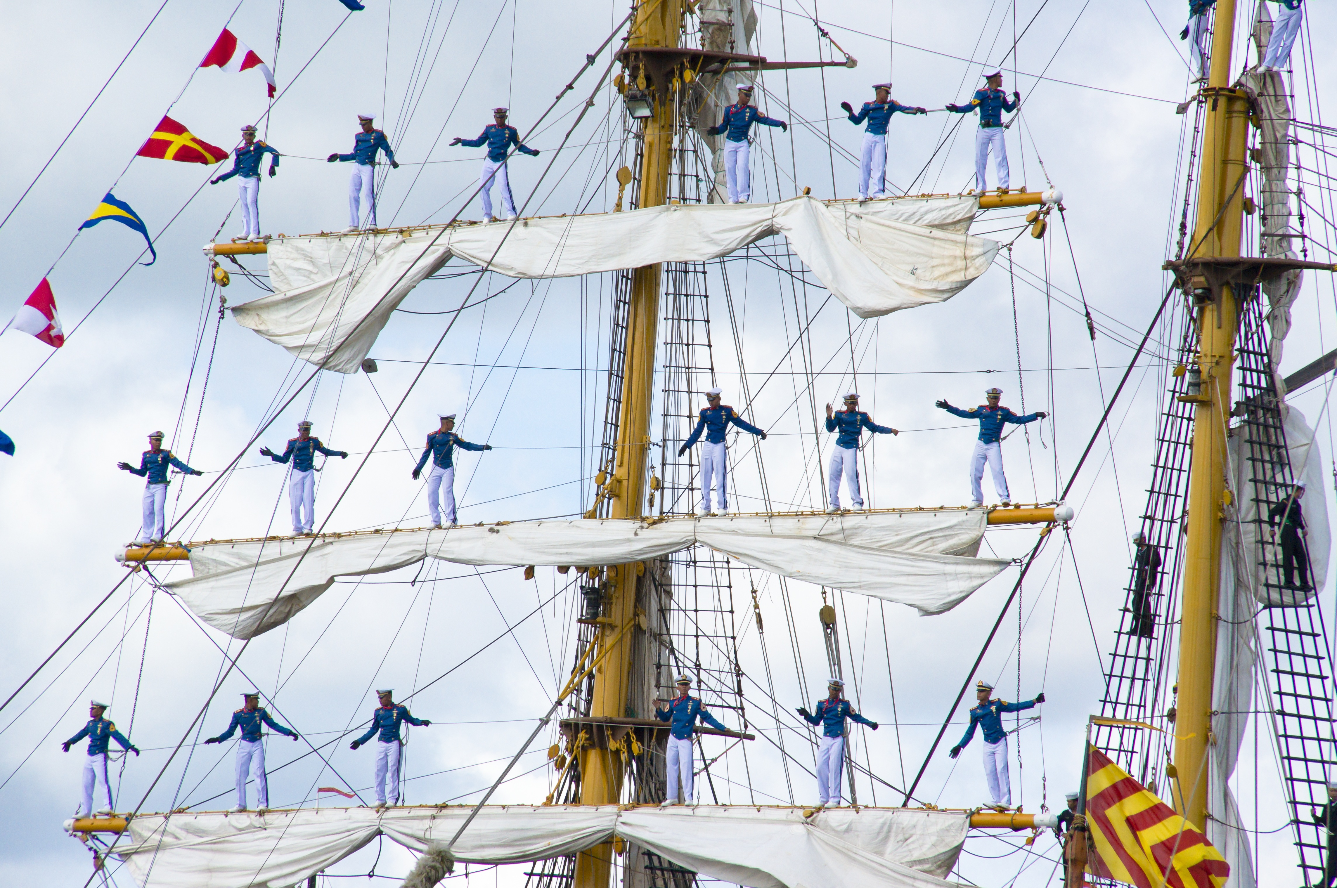 Highest position on Explore: #15 on Saturday, August 21, 2010 The KRI Dewaruci (sometimes spelled Dewa Ruci or Dewarutji; KRI: Kapal Perang Republik Indonesia) is a Class A tall ship owned and operated by the Indonesian Navy. She is used as a sail training vessel for naval cadets and is the largest tall ship in the Indonesian fleet. The Dewaruci also serves as a goodwill ambassador for the country of Indonesia to the rest of the world. Built in Germany by HC Stülcken & Sohn, the Dewaruci is a barquentine. Construction on the Dewaruci began in 1932, but was suspended due to the outbreak of World War II, which caused heavy damage to the shipyard where she was being constructed. She was finally completed in 1952 and launched in 1953. Since then, she has been based out of Surabaya on the Java Sea. Her name and figurehead represent and display the mythological Indonesian god of truth and courage. Until now, KRI Dewaruci is still operational and periodicaly visits other foreign countries to meet other tall ships around the world. The Dewaruci also participates in tall ship races and events around the world. As a unique feature, the ship has her own marching band. In 2010 the "Dewaruci"'s marching band delighted and entertained the crowds in Amsterdam at Sail 2010.